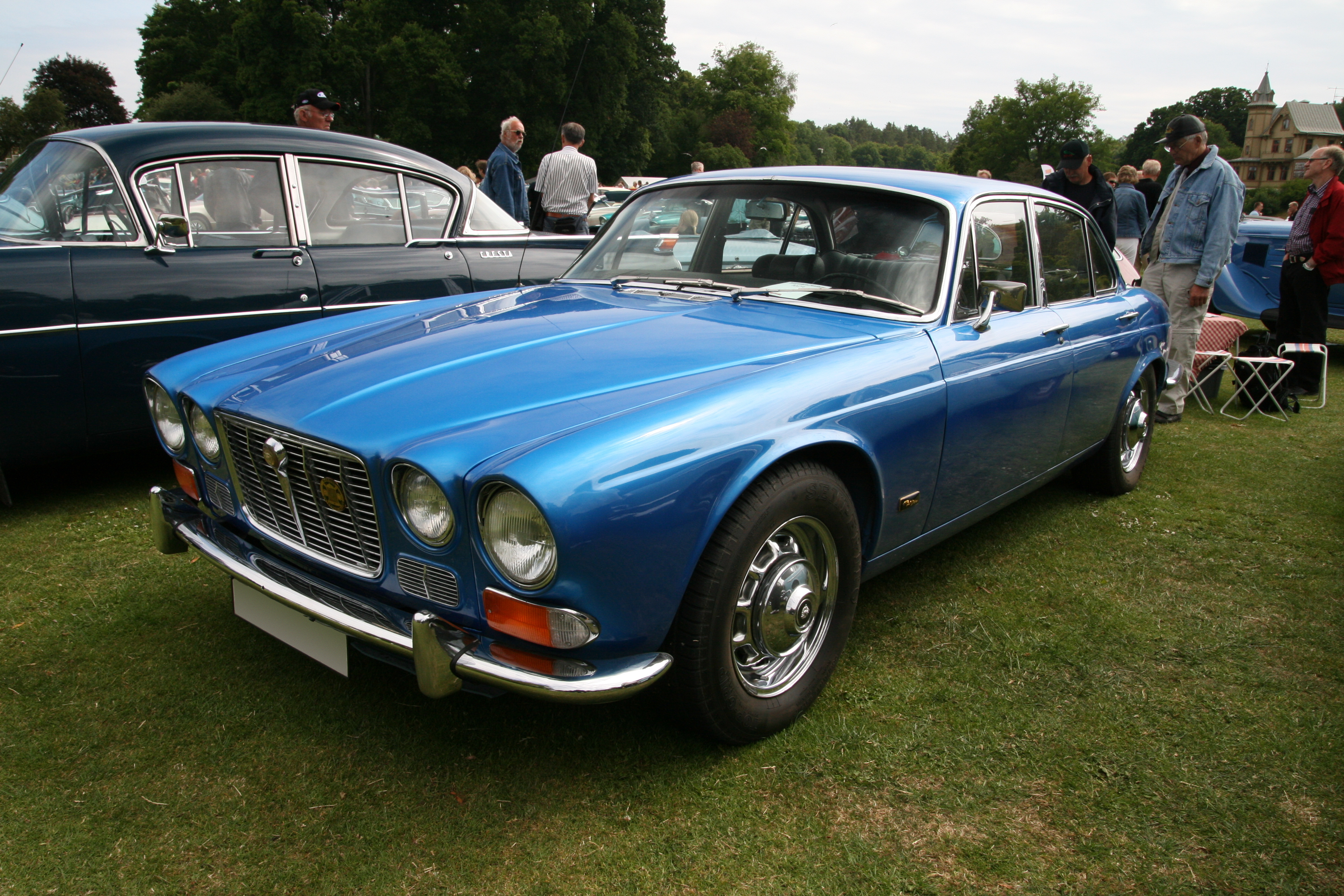 A front left view of a 1969 Jaguar XJ6 parked at the 2008 Nostalgia Festival auto show in Ronneby, Sweden.